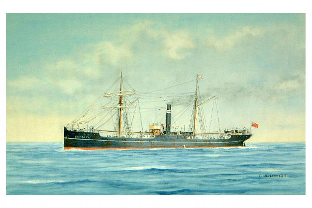 SS Camorta built by A & J Inglis in a painting by Tom Robinson